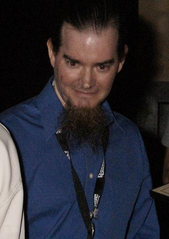 Brian R. James at the 2012 ENnies.